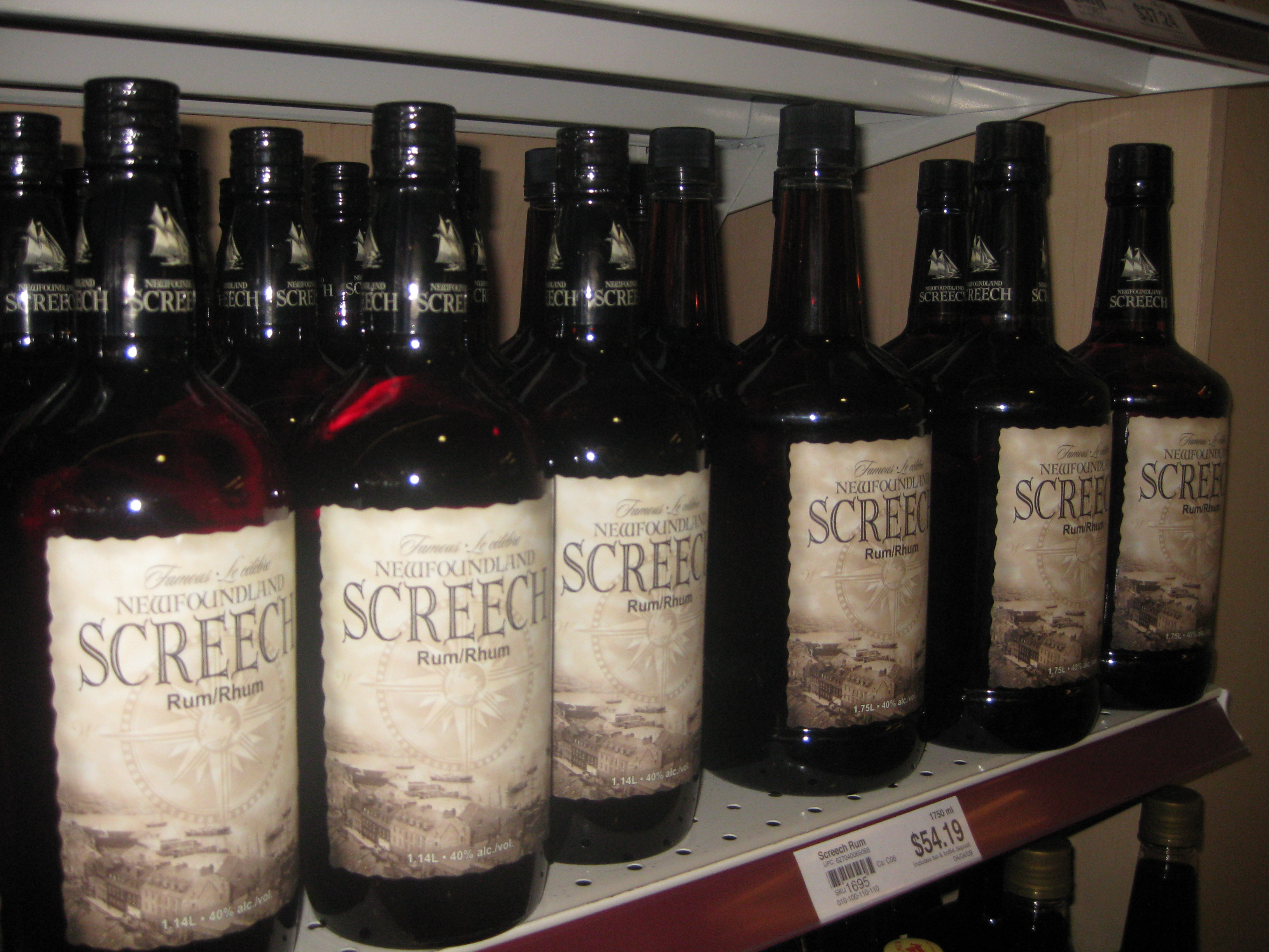 Newfoundland Screech, on shelves